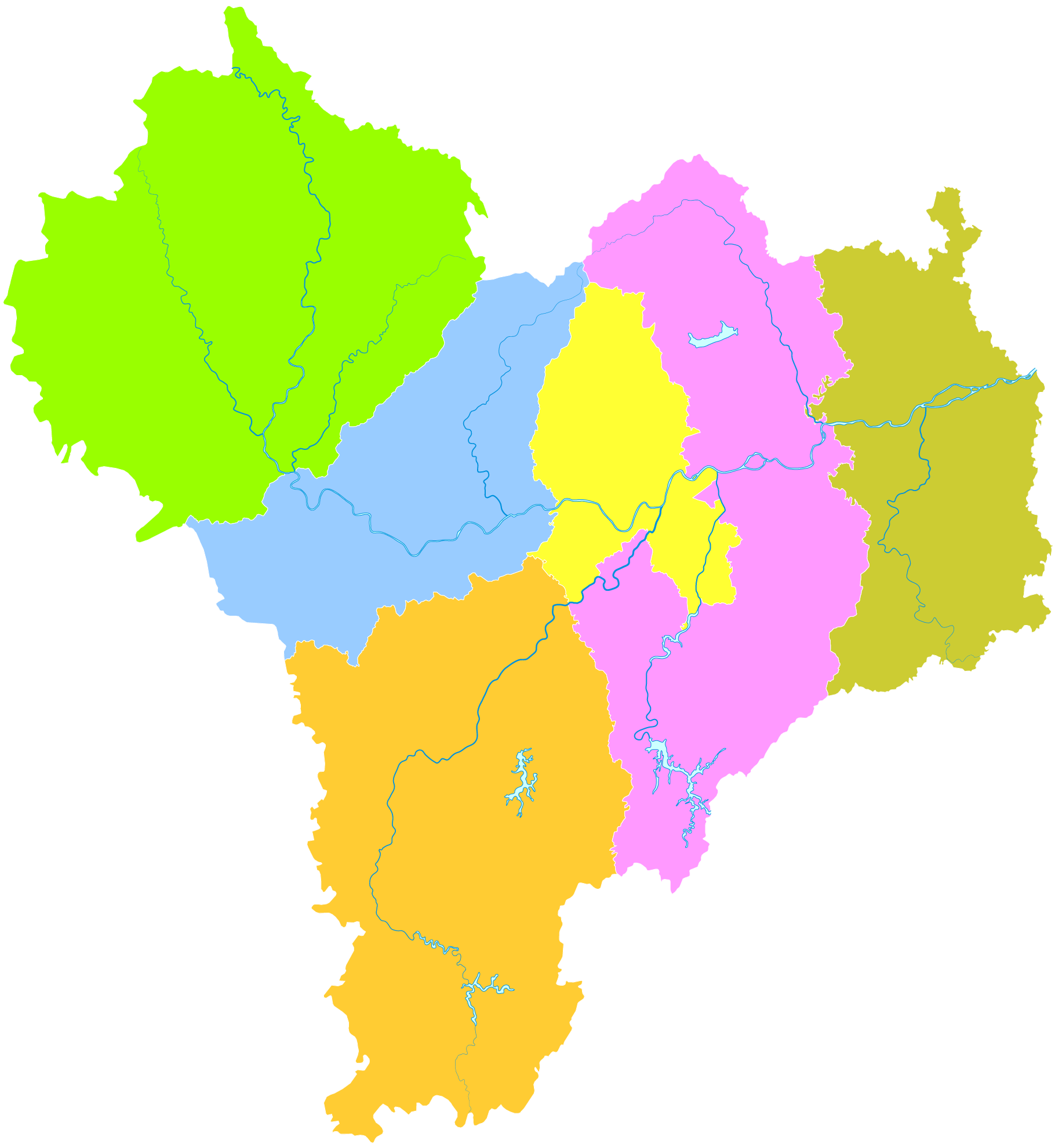 administrative divisions of Quzhou City, Zhejiang, China